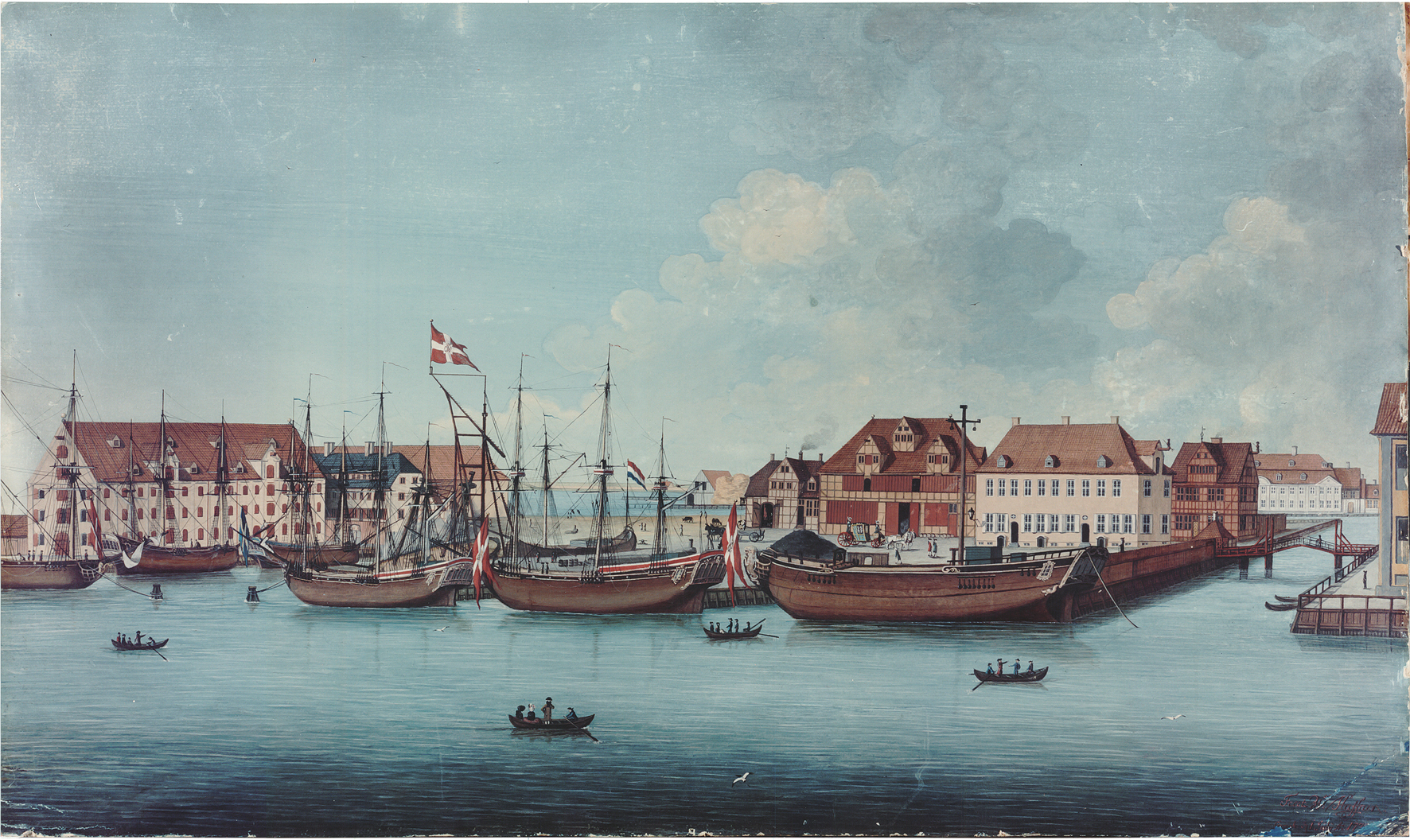 Strandgade and Wilder's Warehouse on Christianshavn in Copenhagen, seen from Havnegade on the other side of the harbour